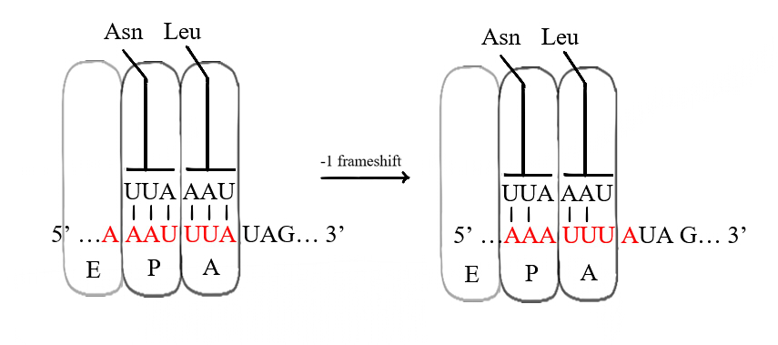 Tandem slippage model for -1 programmed ribosomal frameshifting, in which ribosome and 2 tRNAs simultaneously slip backwards one nt on slippery sequence before continuing translation